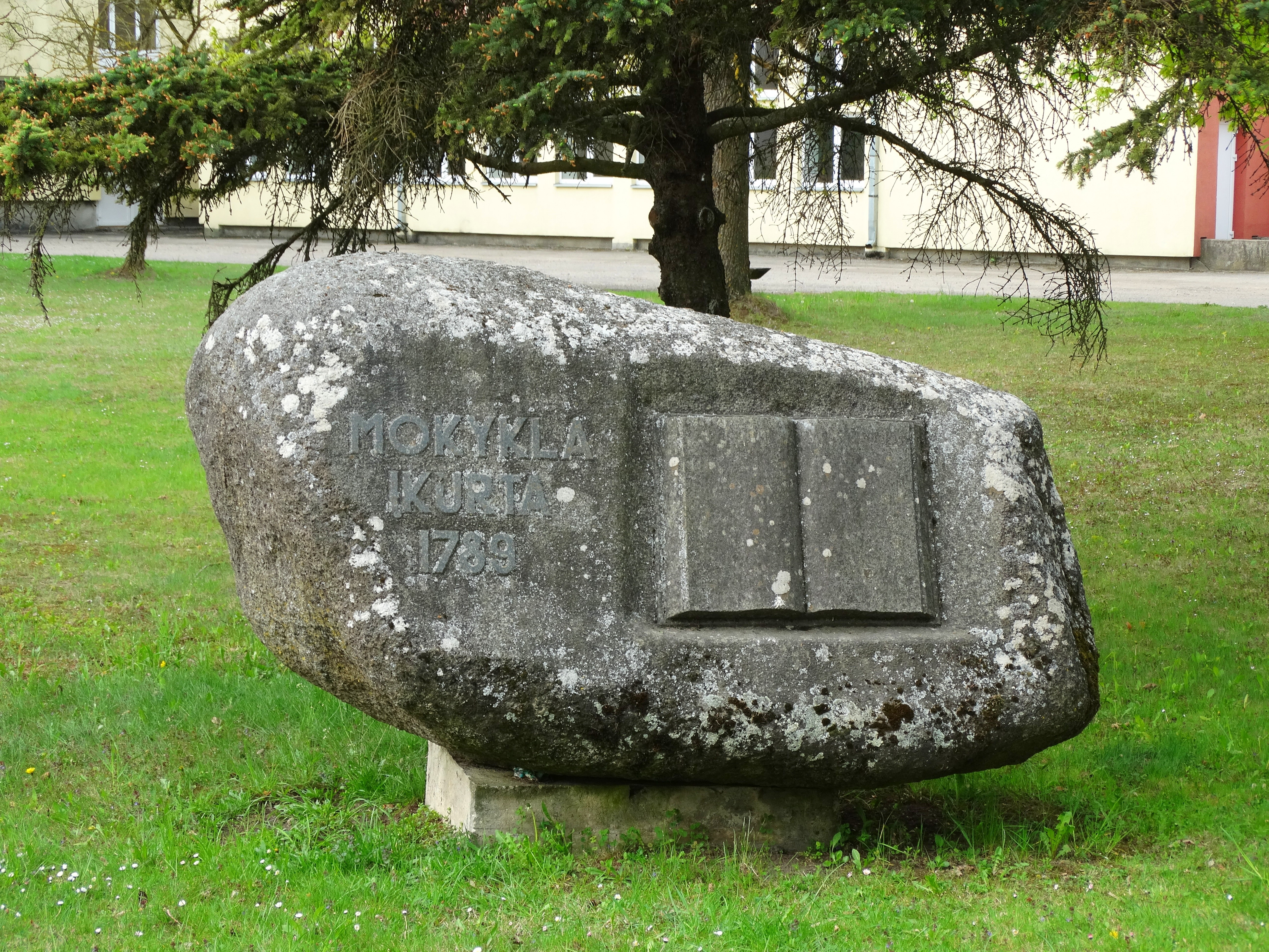 Rozalimas, basic school , Pakruojis District, Lithuania